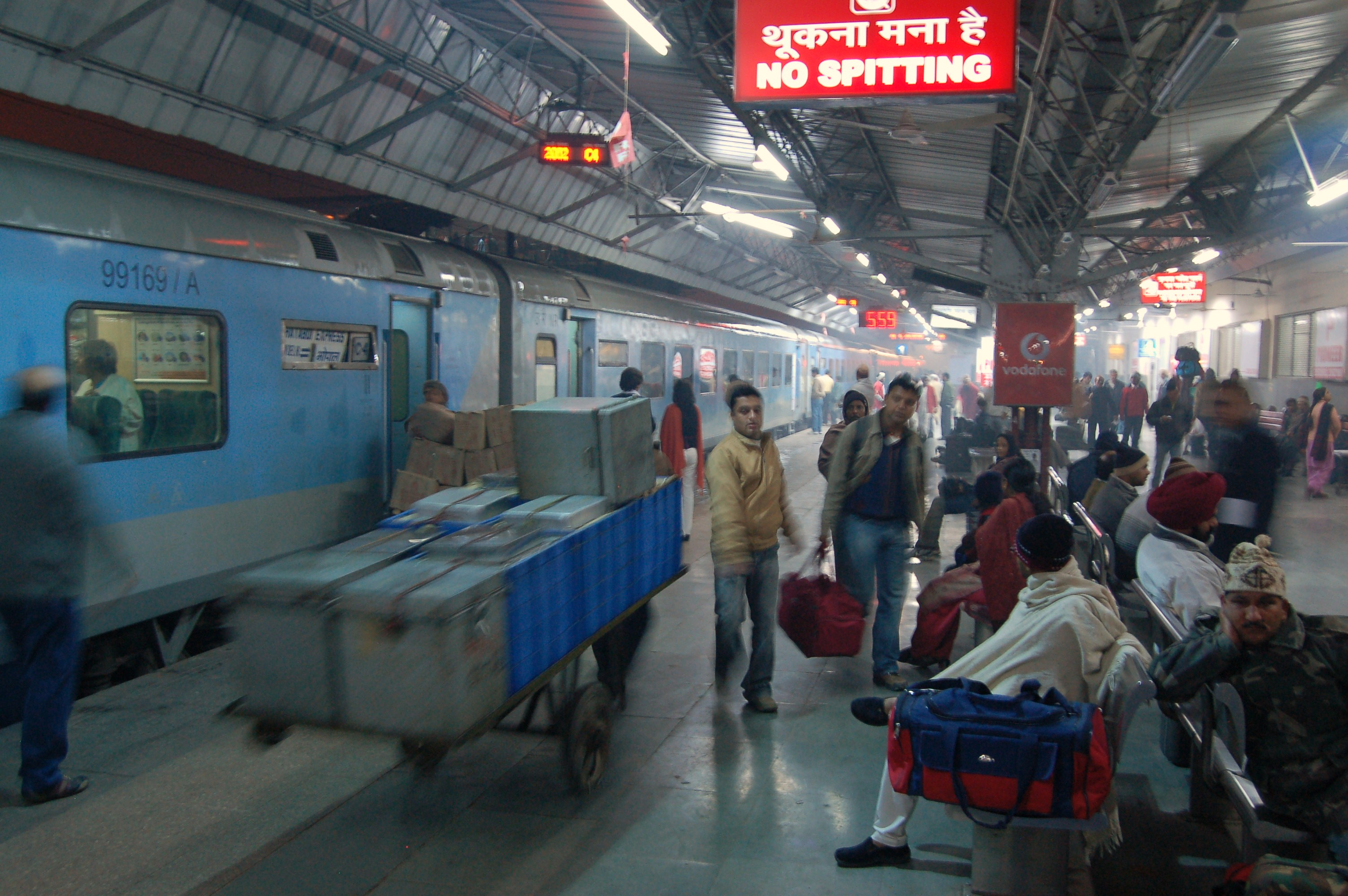 View of platform 1 at New Delhi railway station, India, early on a foggy morning. At left is the Bhopal Shatabdi Express, which is awaiting departure for Bhopal Junction.